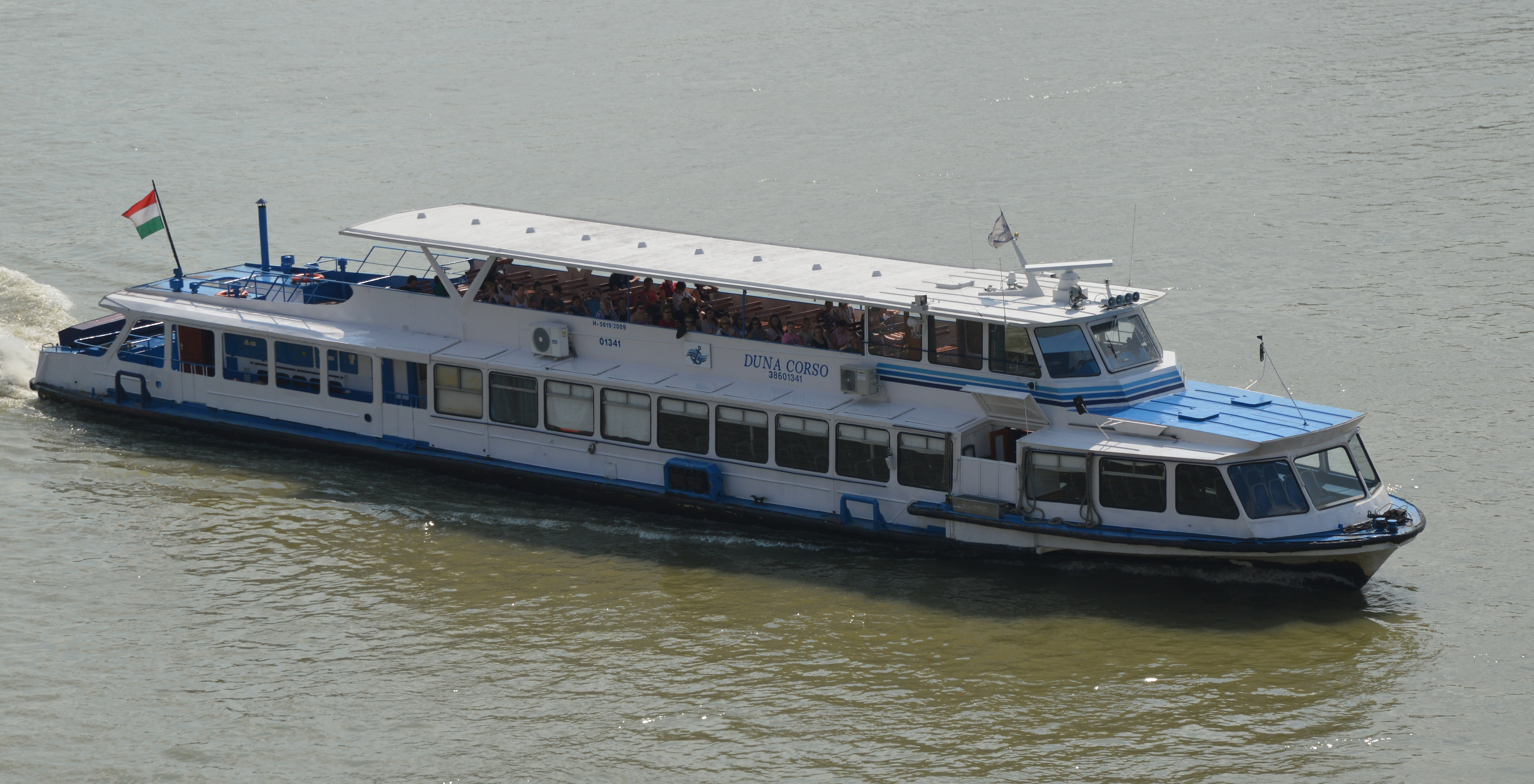 The Duna Corso (type Moskva) ship on the Danube river, Budapest